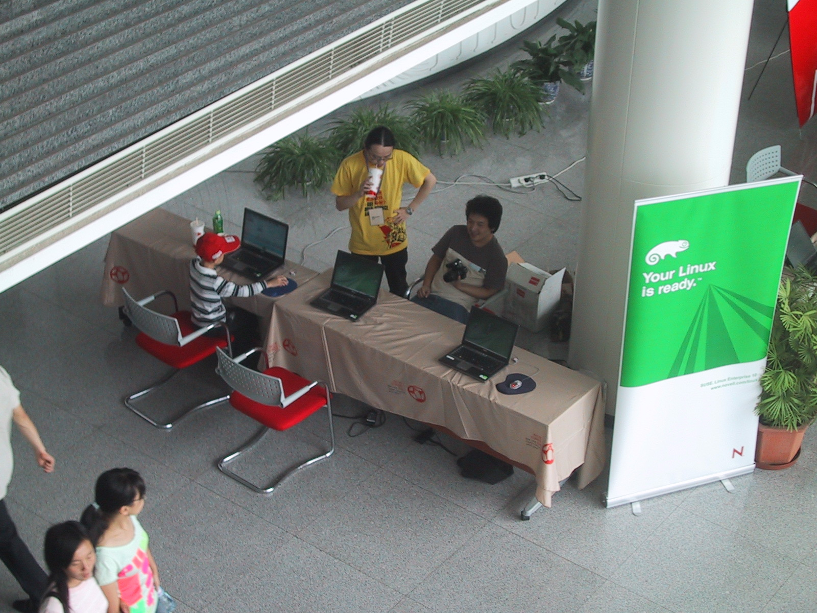 The Novell booth at Software Freedom Day Beijing 2007. The banner shows Novell's slogan at the time, "Your Linux is ready."